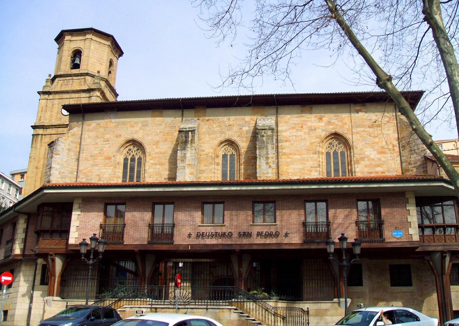 Iglesia de San Pedro de Deusto, en Bilbao (España)